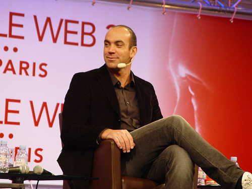 Loïc Le Meur at the LeWeb 3 conference, in december 2006.